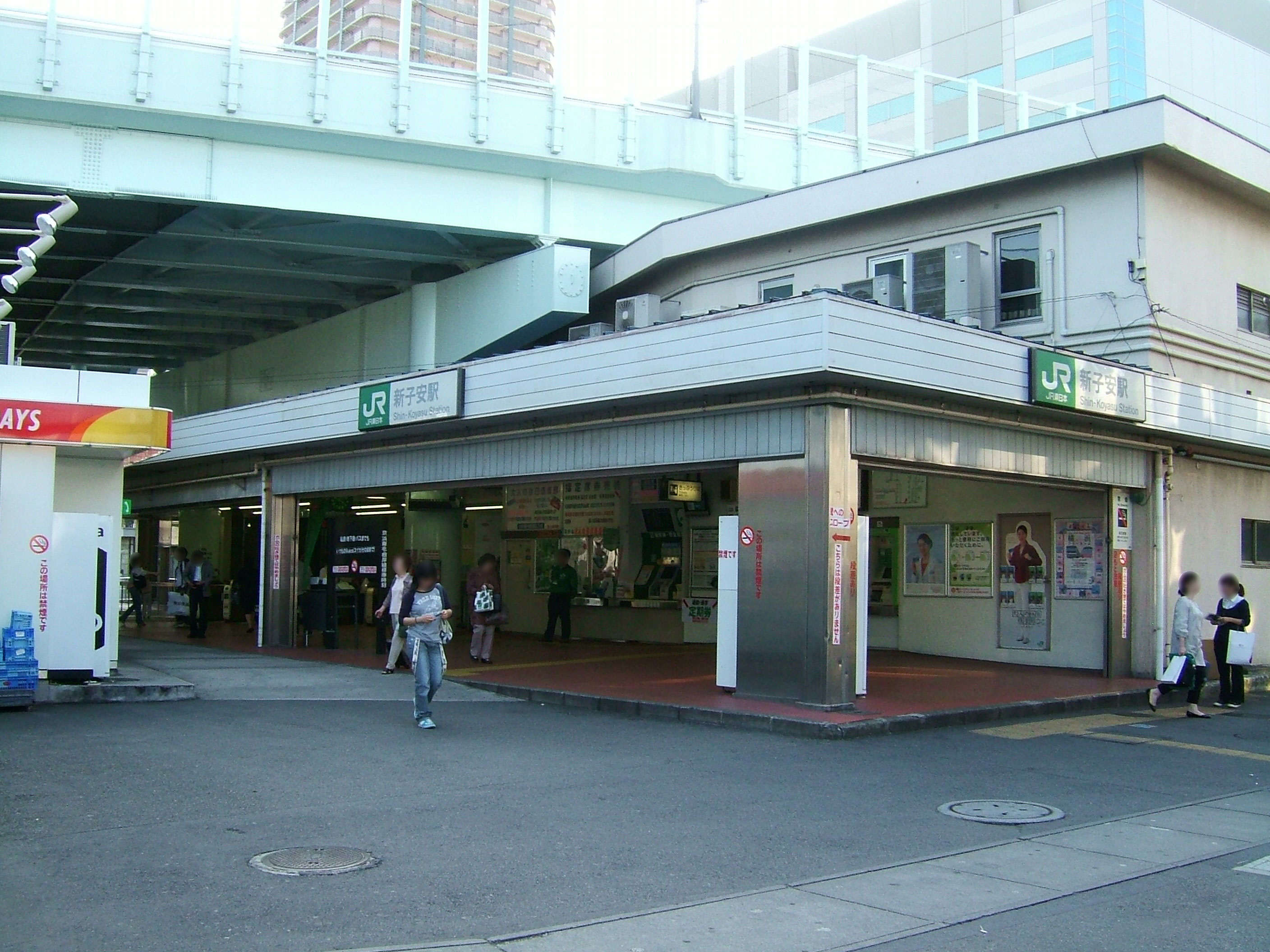 Shin-Koyasu Station building (East Japan Railway Keihin-Tōhoku Line)